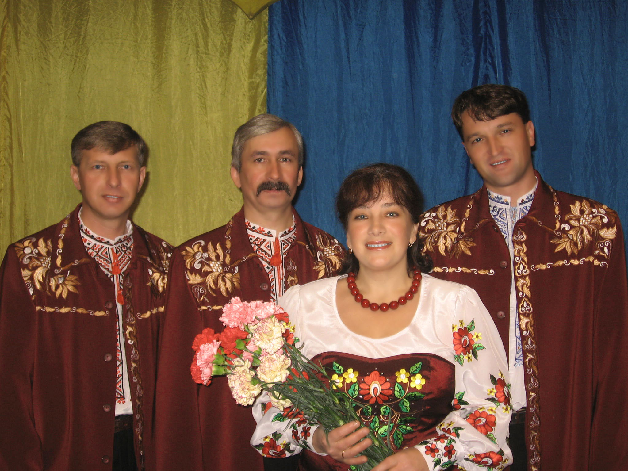 Pic of Susidy (Neighbours) bandmates, Hradyzk, Ukraine